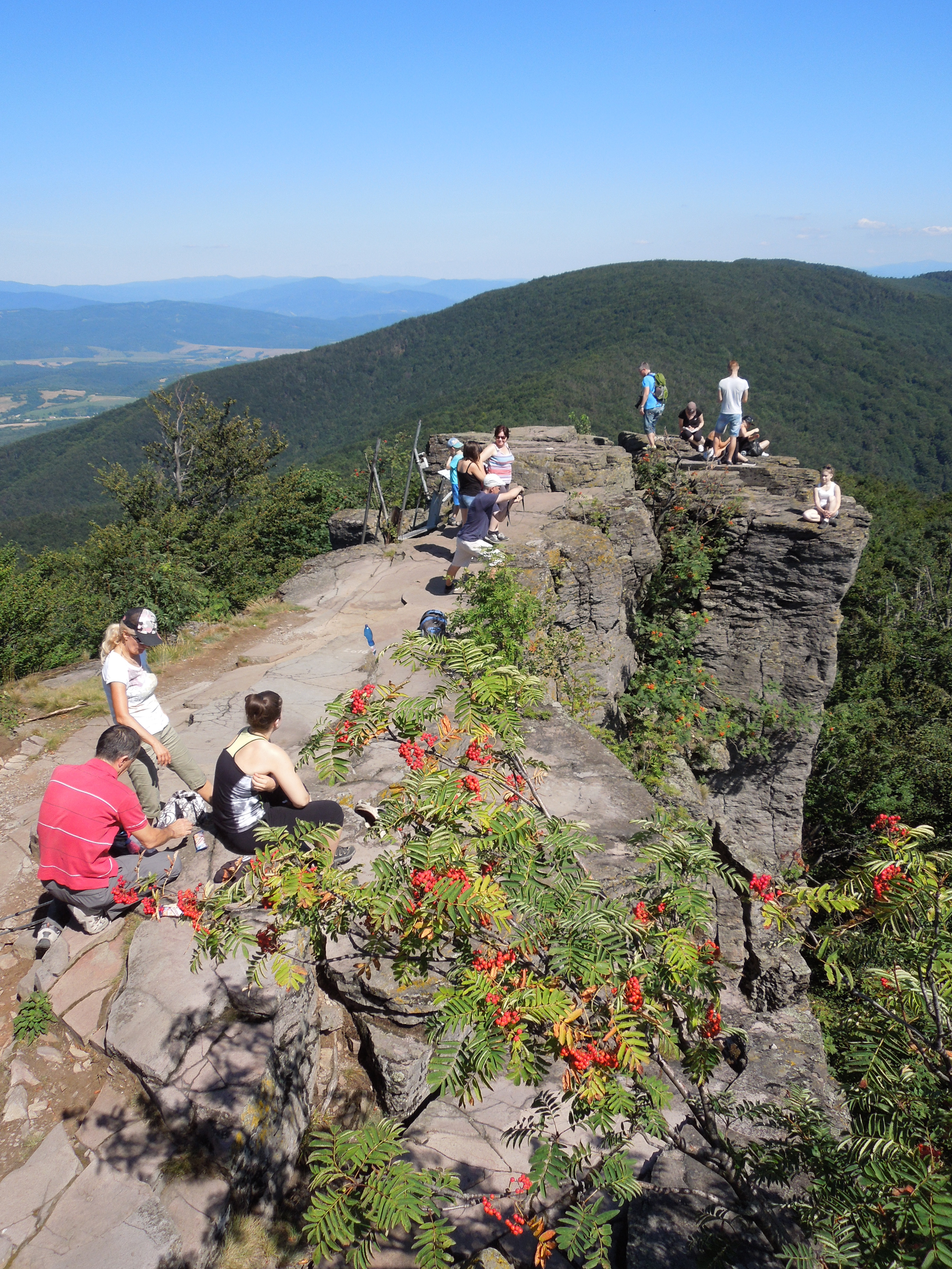 Sninský kameň (its eastern part) in the summer This is a photography of Natura 2000 protected area with ID SKUEV0209